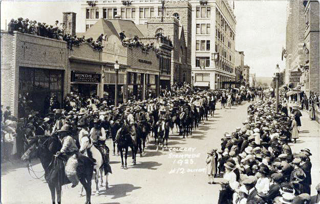 1923 Calgary Stampede parade. Description from the Calgary Stampede Archives: "parade scene, mounted cowboys, likely some of the contestants"